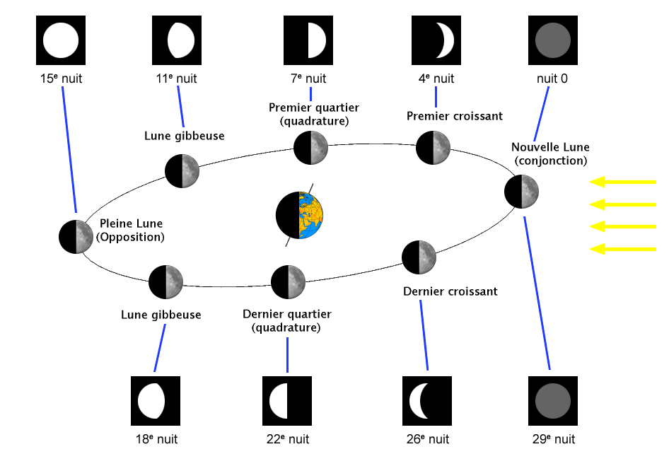 Orbit of the Moon and phases seen from Earth.